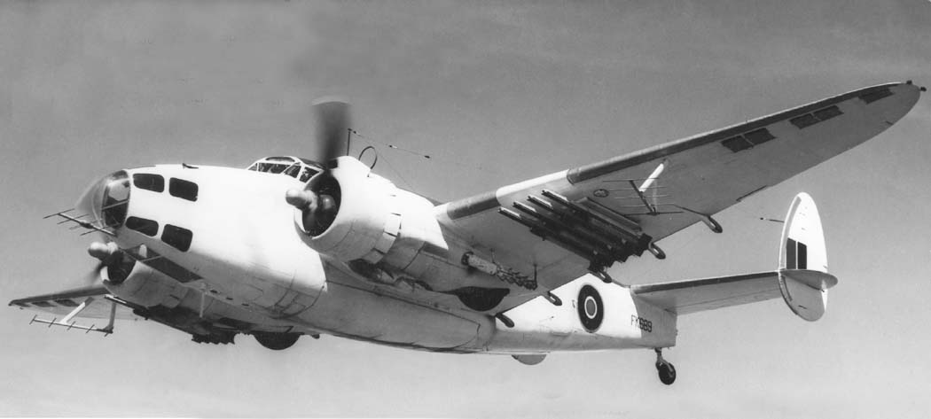 RAF Coastal Command Lockheed Hudson FY689. The ASV Mk. II antennas are easily visible on the nose and under the wings. The aircraft carries 8 RP-3 rockets.